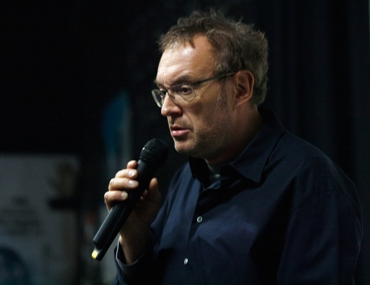 Josef Hader at the Auditorium Maximum of the University of Vienna, that was occupied by protesting students in autumn 2009.